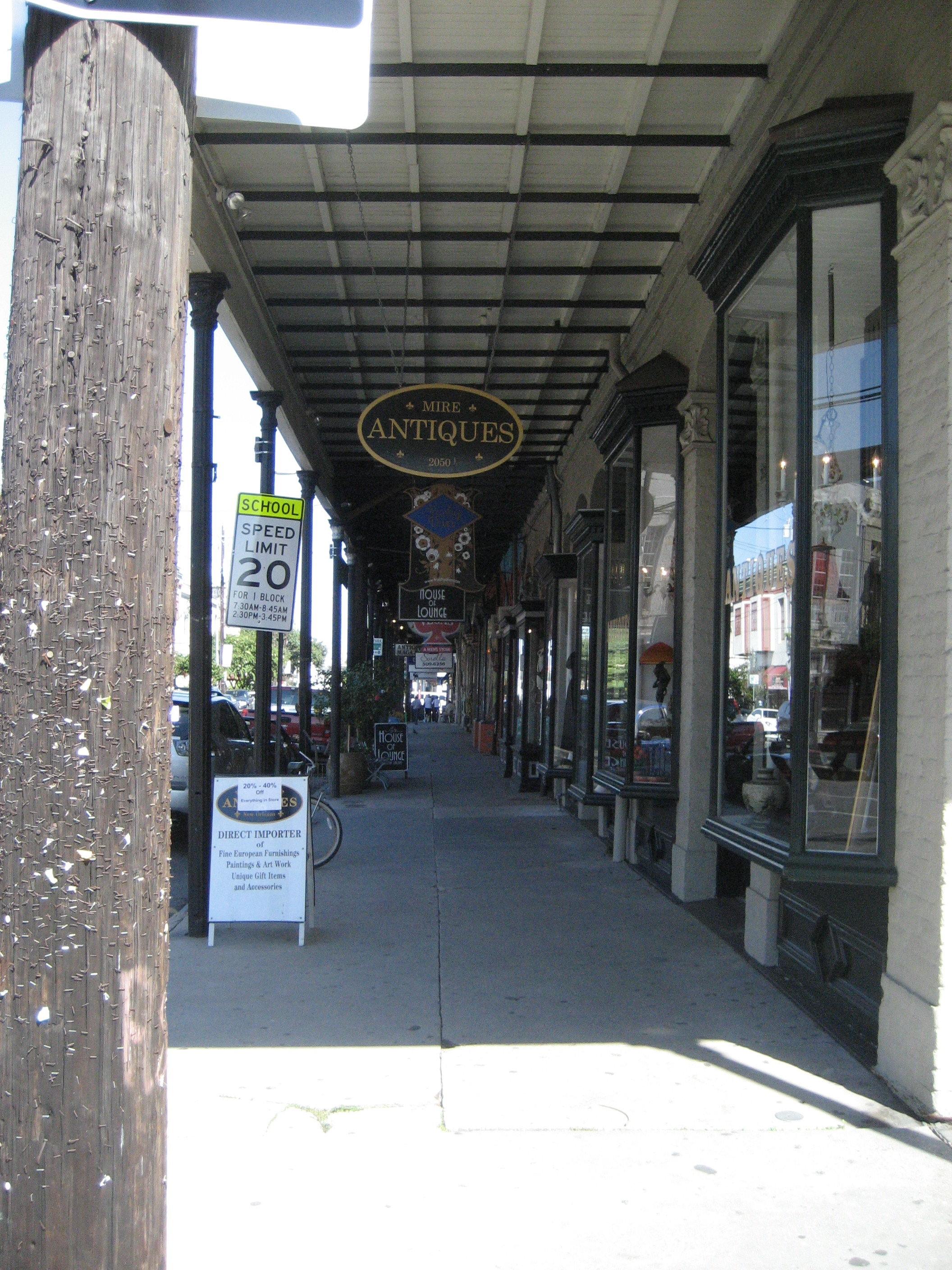 Covered sidewalk with local shops in commercial district along Magazine Street, New Orleans.